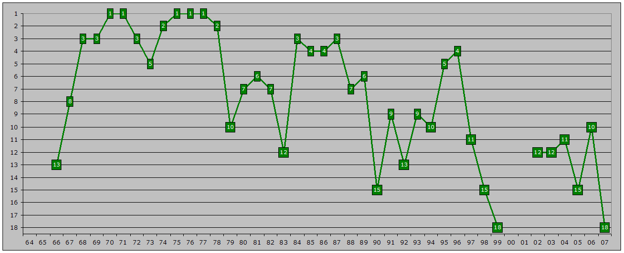 Borussia Mönchengladbach position at the end of the season